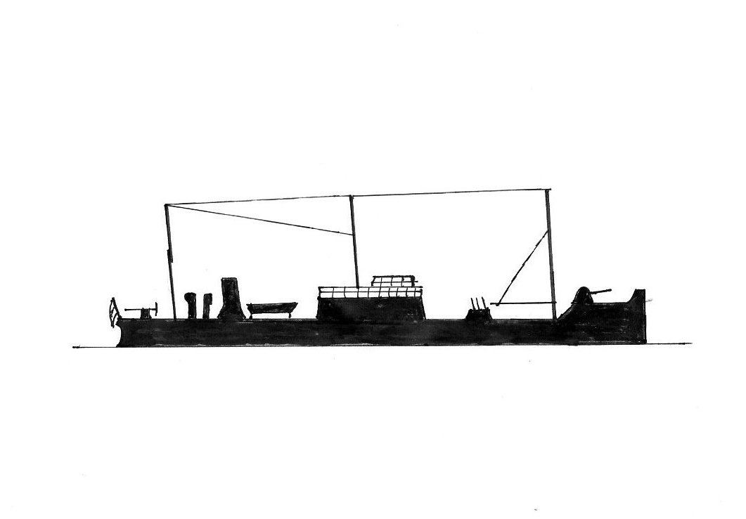 HMS KRUGER, former russian PRESIDENT KRUGER, 1918-1919 flag ship of the British Caspian Flotilla